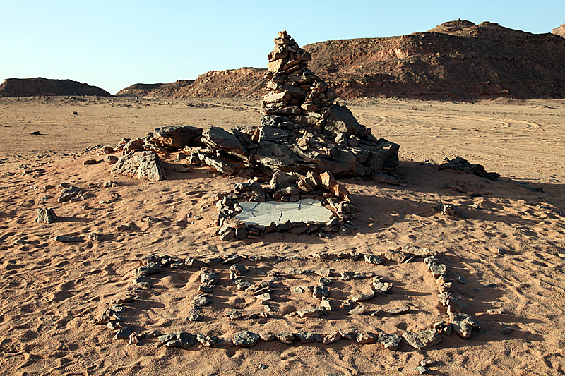 Kamal el-Din memorial, Western Desert, Egypt